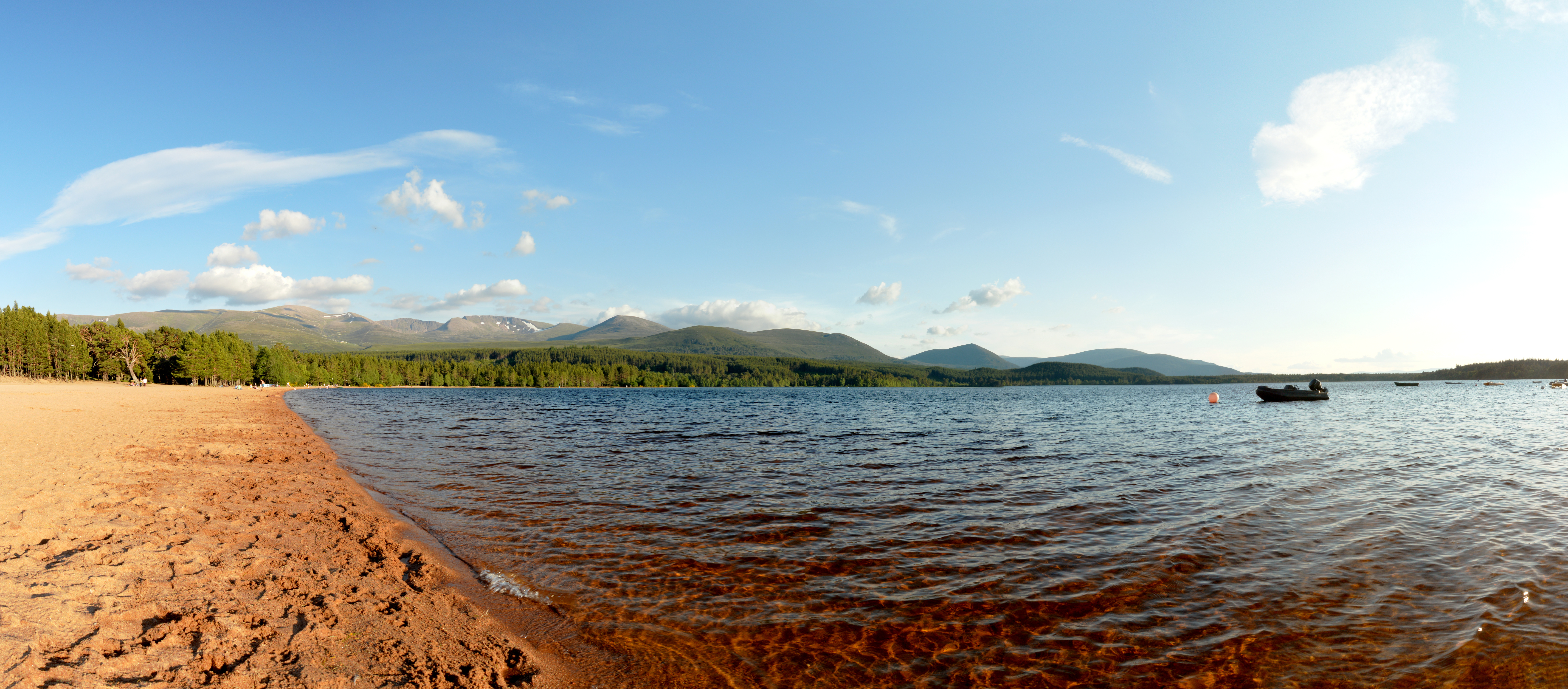 evening on the banks of Loch Morlich, in the Cairngorms mountains, Cairngorms National Park